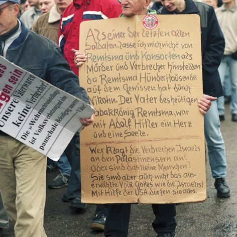 Protesters against the Wehrmacht exhibition in Munich on 12 October 2002, holding up glorified Wehrmacht propaganda